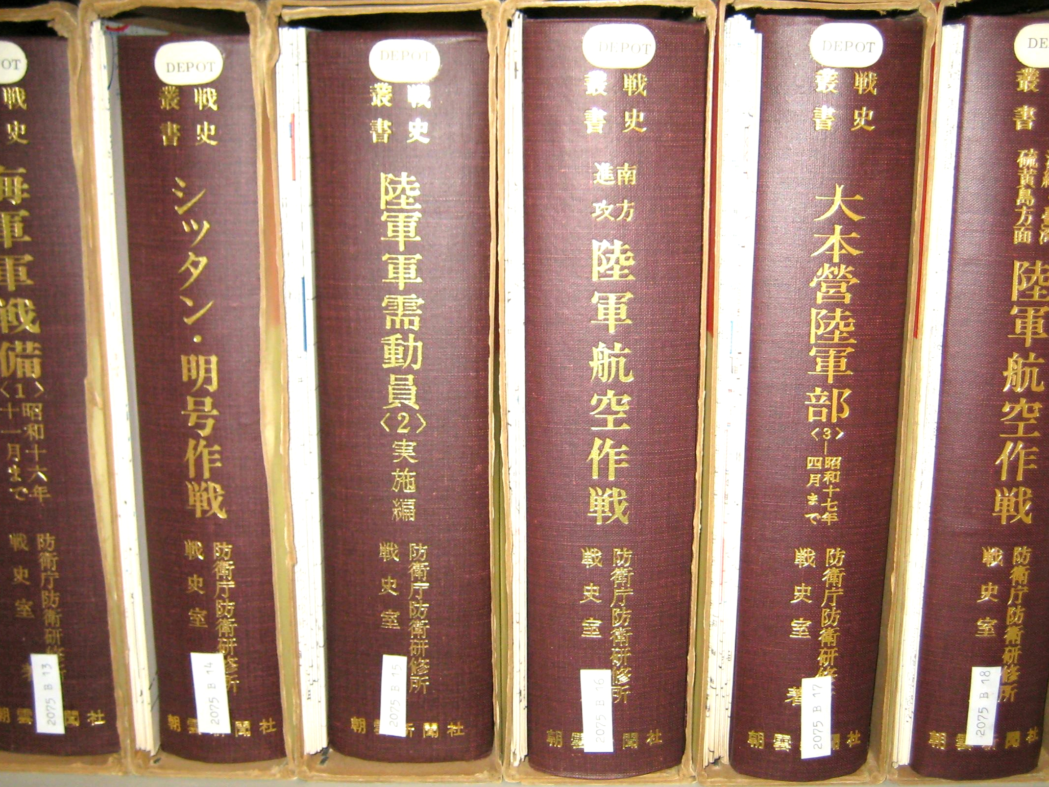 a picture of some Senshi Sōsho- volumes in the original Japanese language.